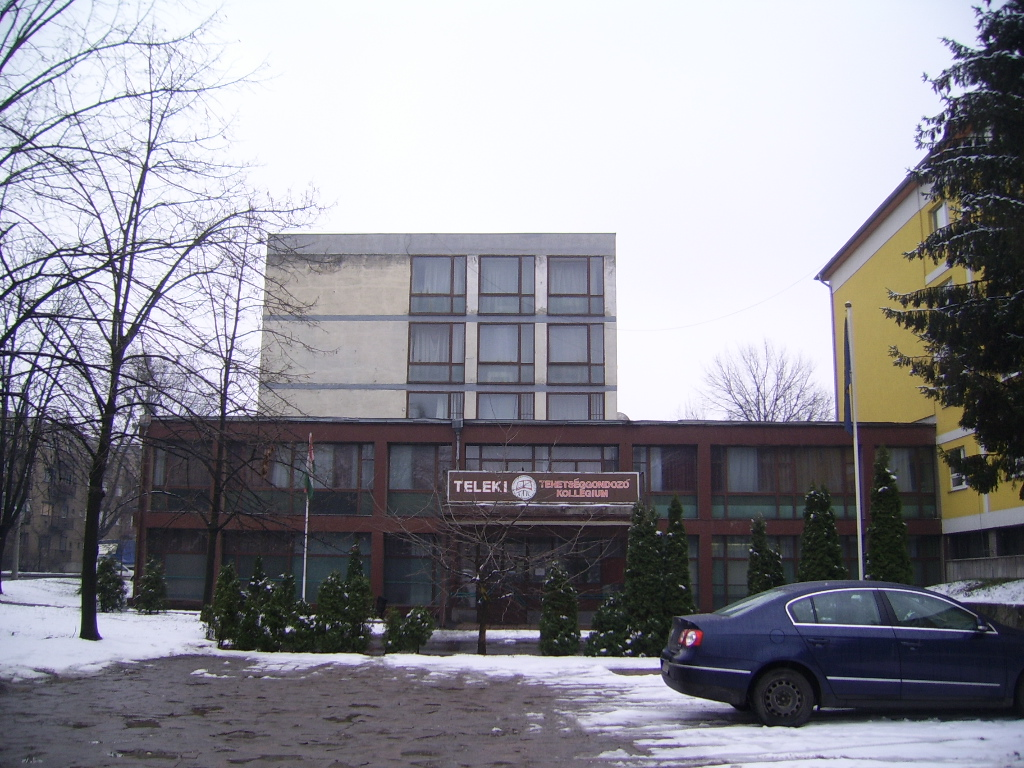 The Teleki Dormitory, Miskolc, Ungarn